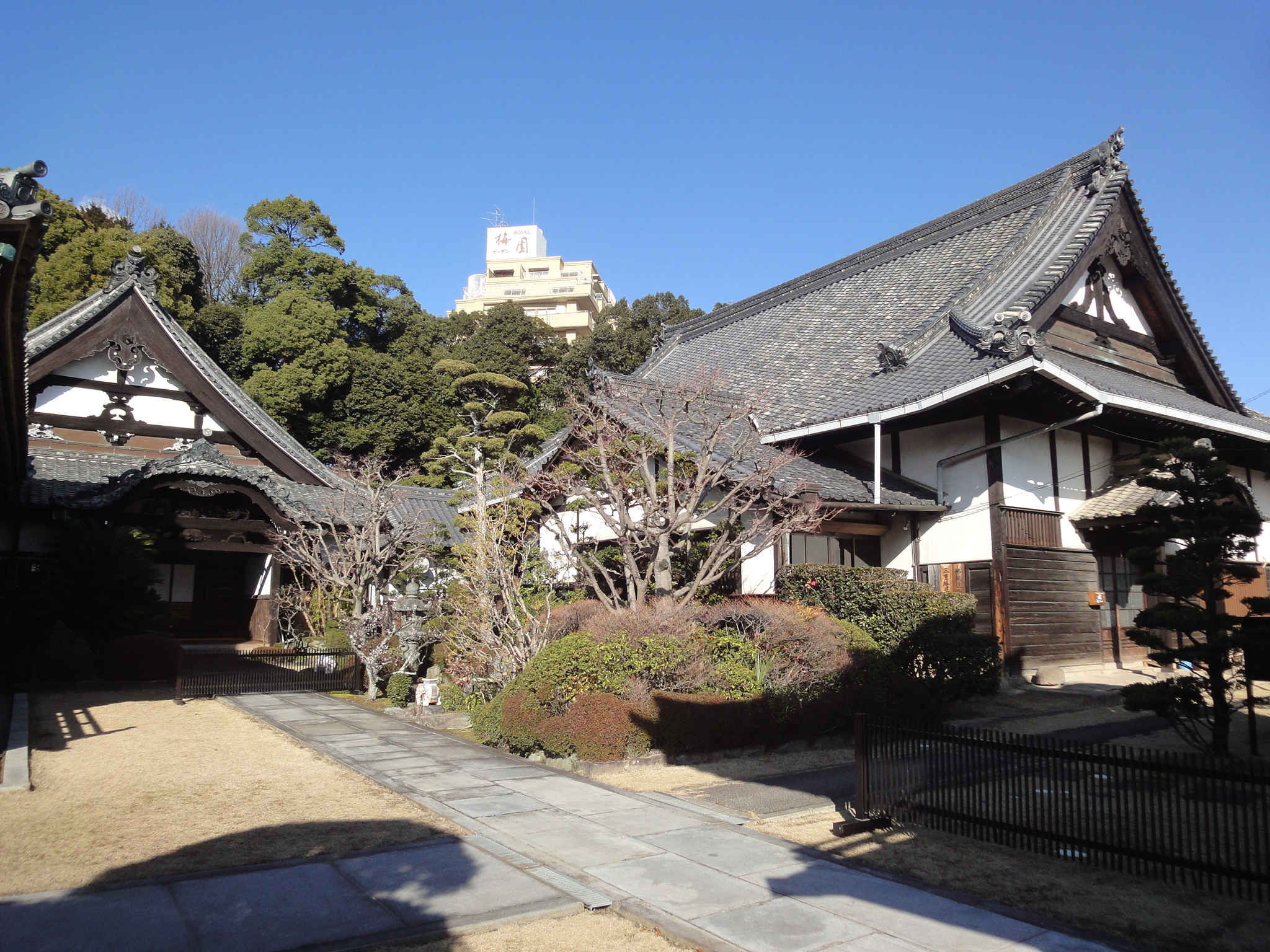 Zuinen-ji Kori and Shoin